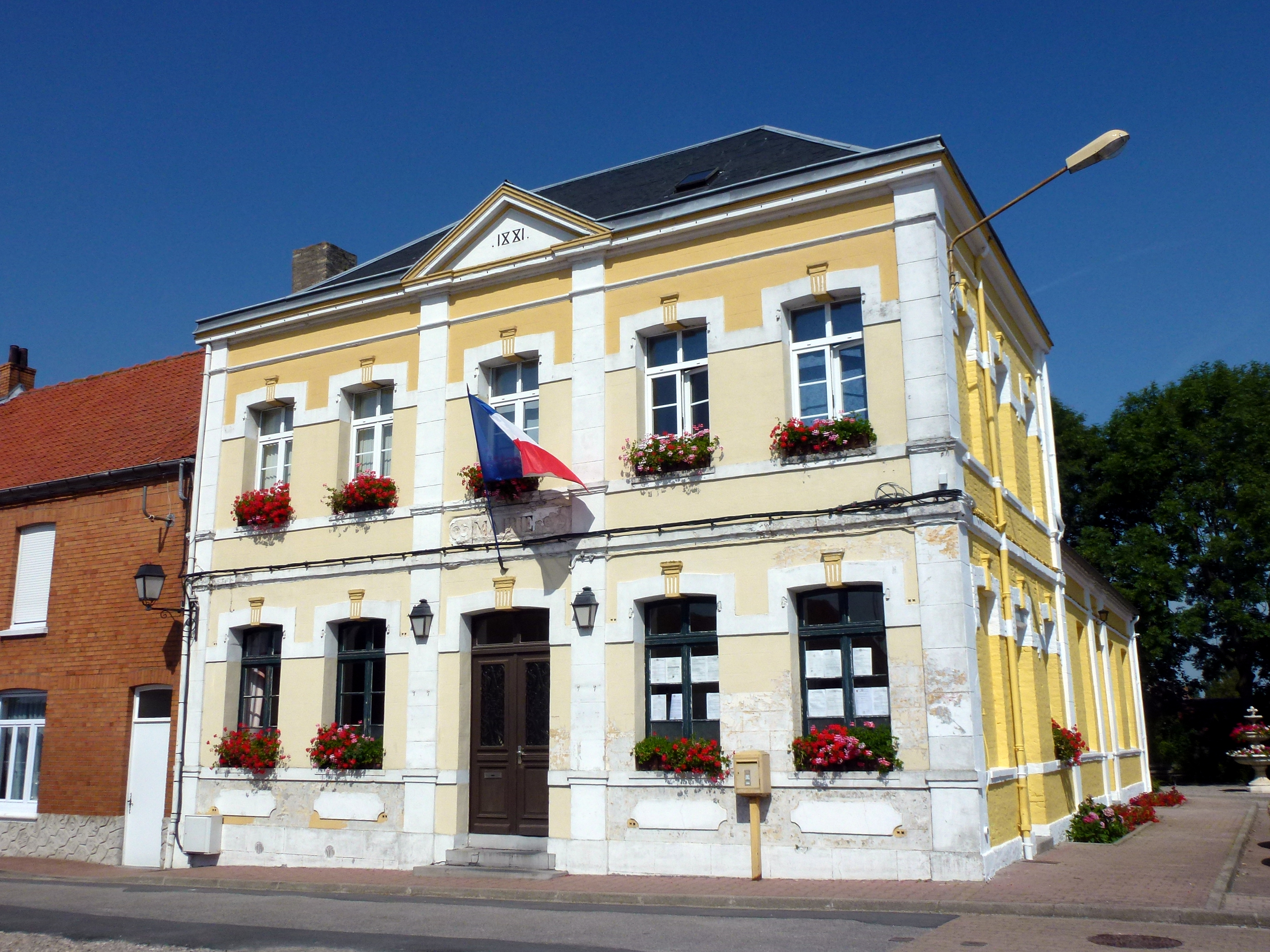 Saint-Folquin (Pas-de-Calais) mairie